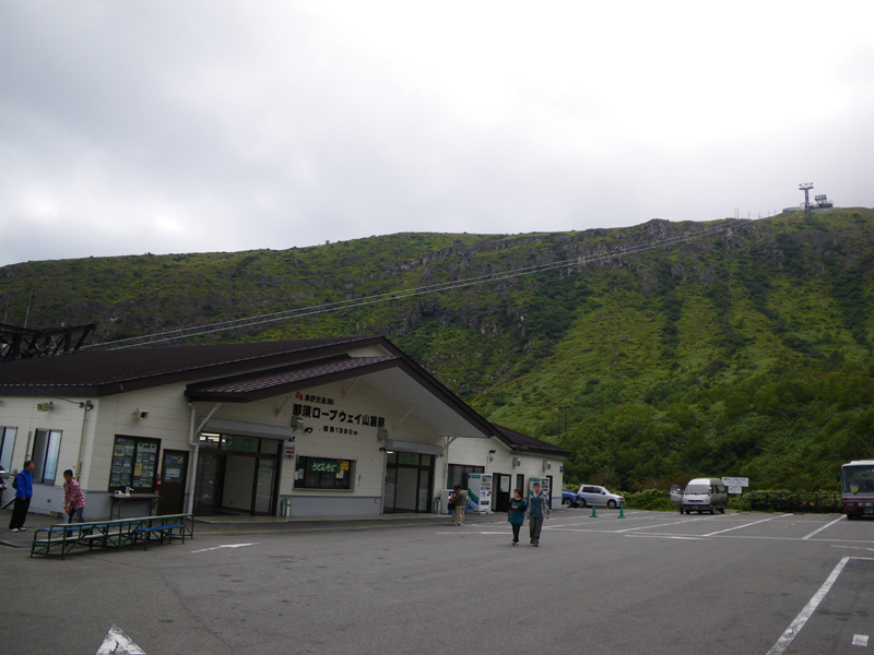 Nasu Ropeway Sanroku Station in Nasu Town, Tochigi Prefecture, Japan